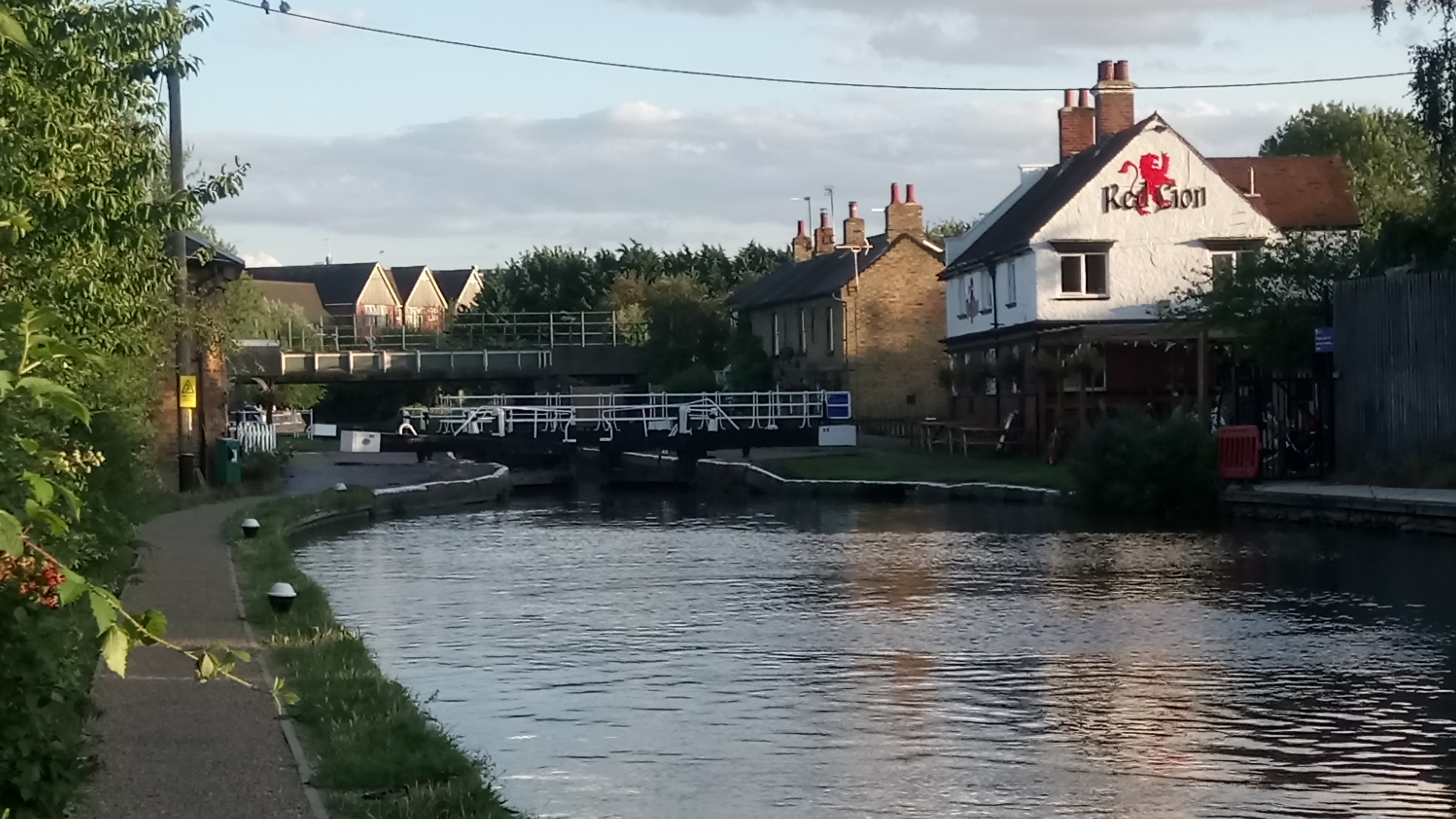 A picture taken of Fenny Lock in the summer of 2019.